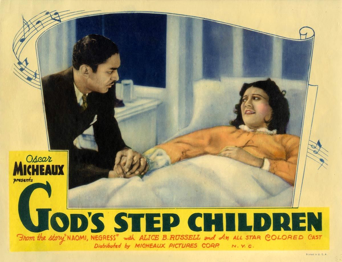 Lobby card for the 1938 film God's Step Children.